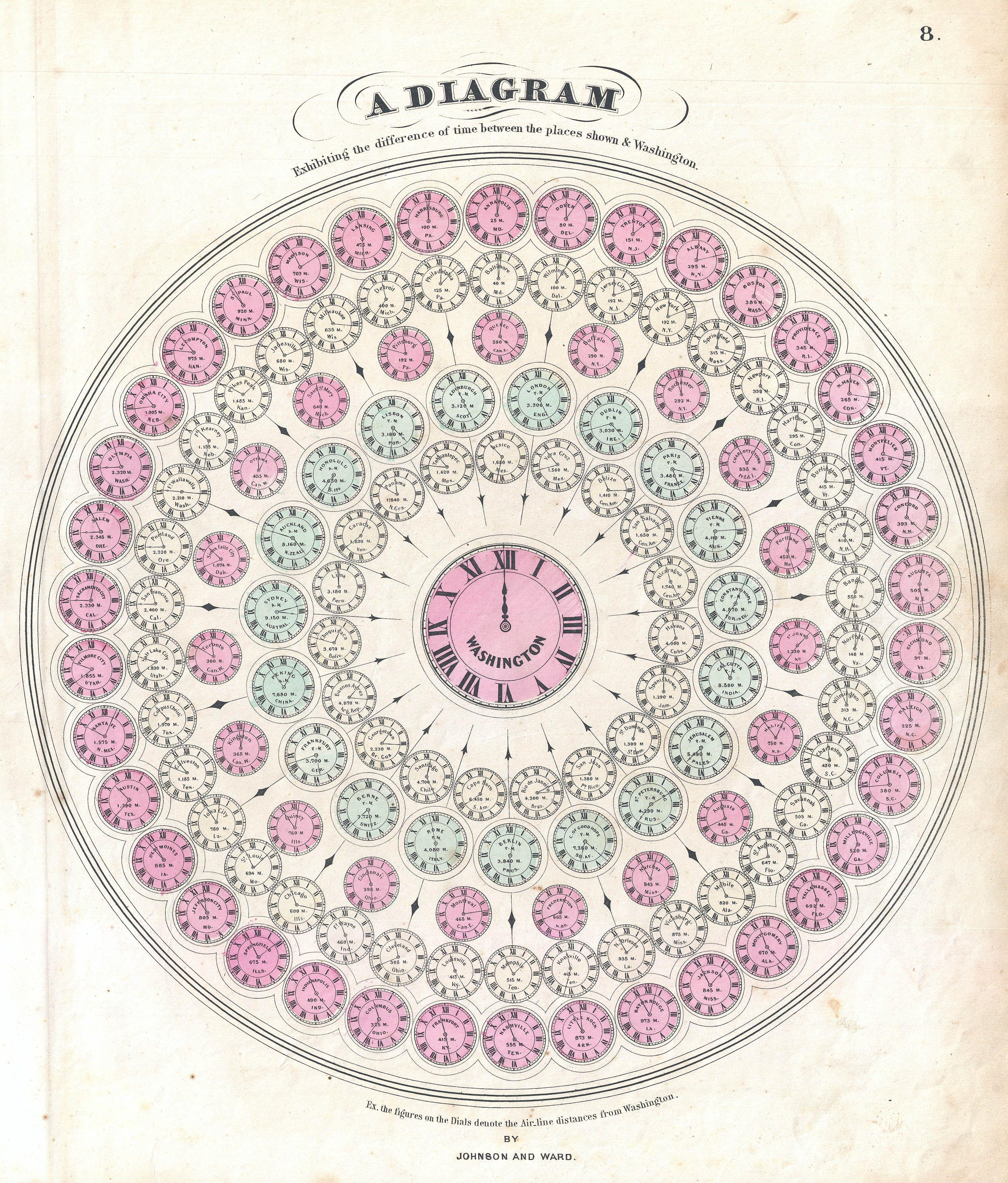 A very attractive example of Johnson's 1862 diagram of the world's time zones. Consists of a circular engraving in which numerous clocks are drawn, each representing a major world city. At the center is clock representing the time in Washington, D.C. The time in Washington is set at 12 and the remaining clock are adjusted accordingly So, if it is 12 in Washington, it is 11:02 in Calcutta and 6:35 in Honolulu, etc. Published by A. J. Johnson and Ward as plate number 8 in the 1862 edition of Johnson’s New Illustrated Family Atlas . This is the first edition of the Family Atlas to bear the Johnson and Ward imprint.